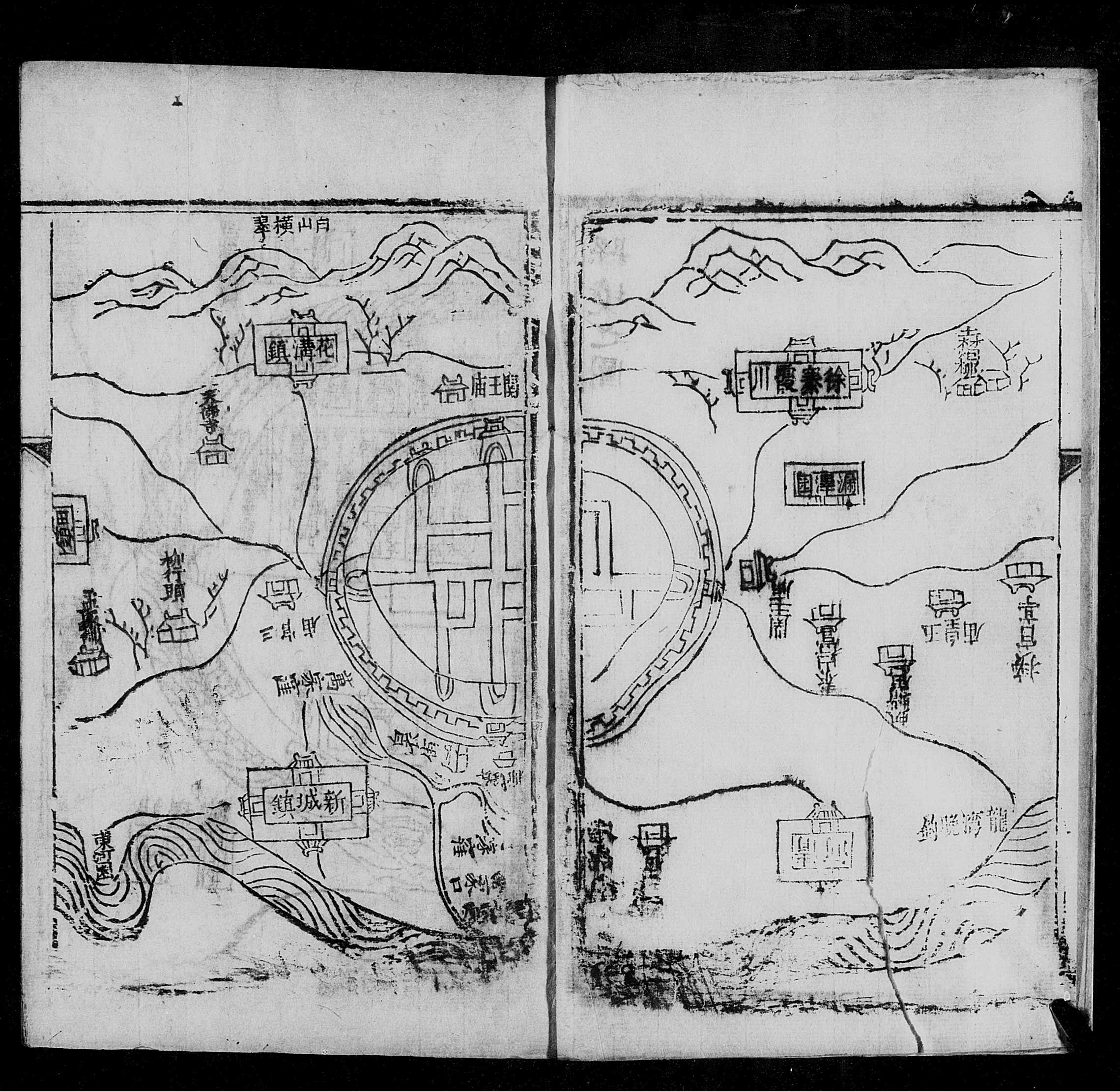 Qing cheng county of China in Qing dynasty. 1842.